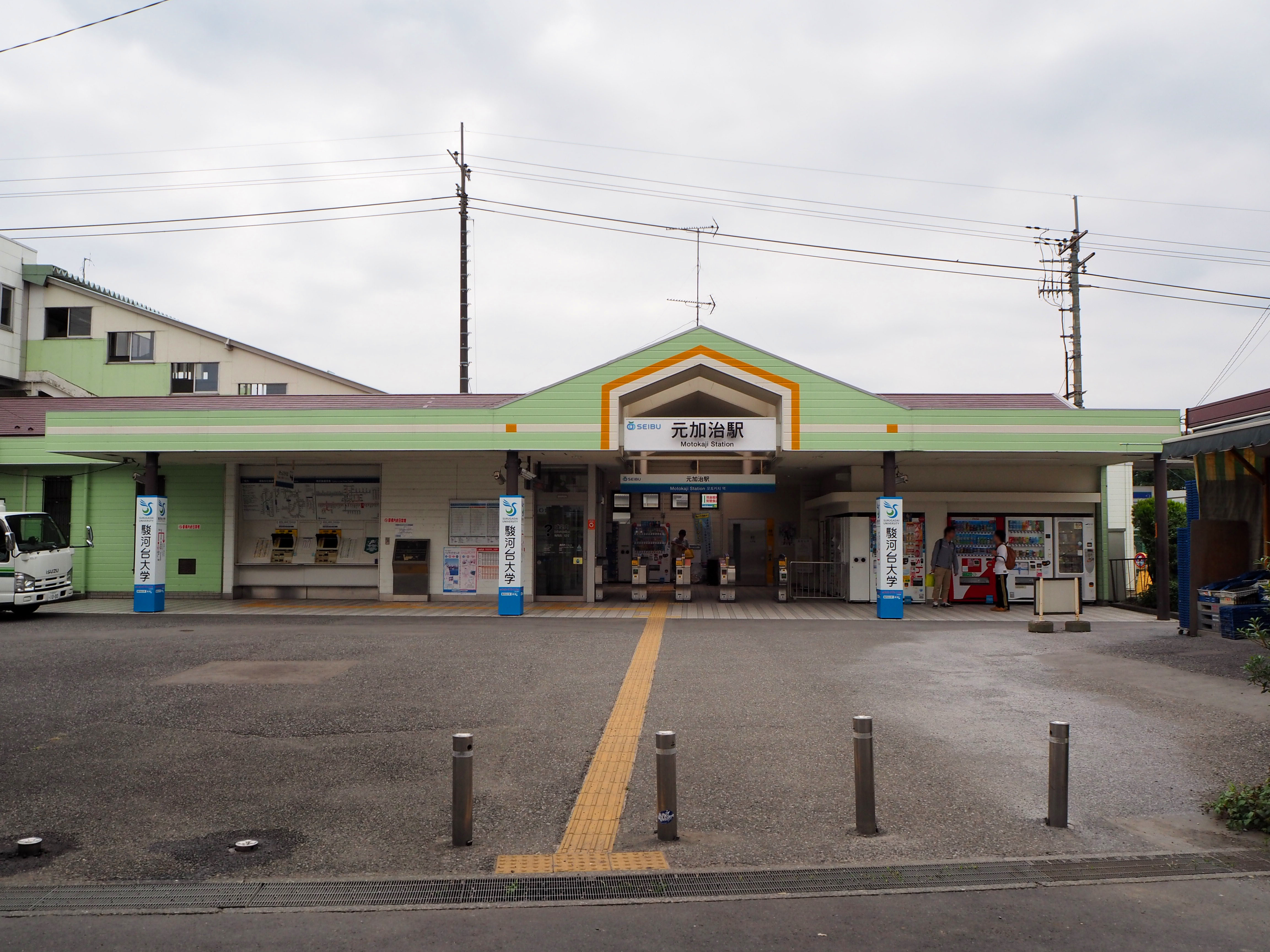 Motokaji Station